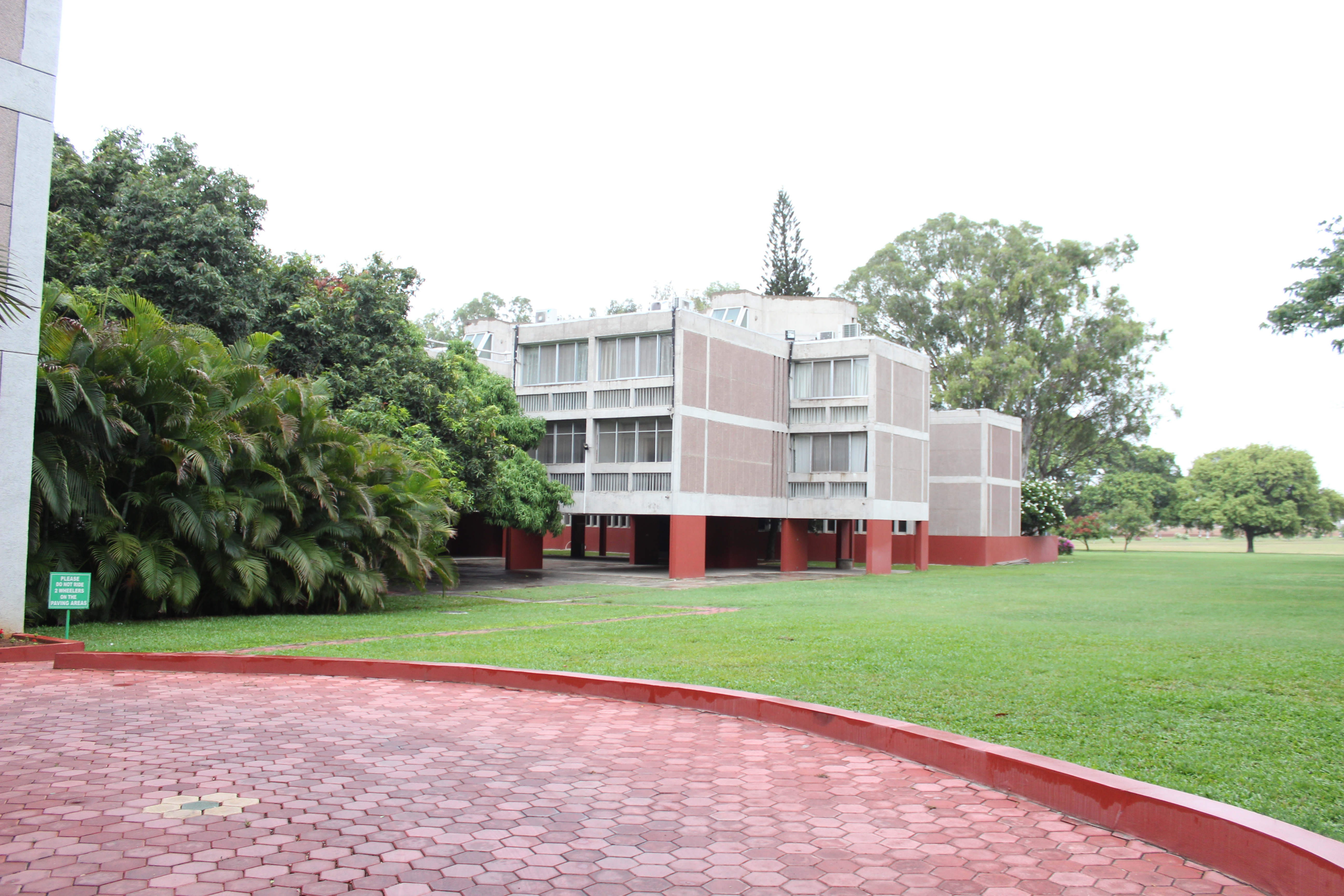 Icrisat visit photos